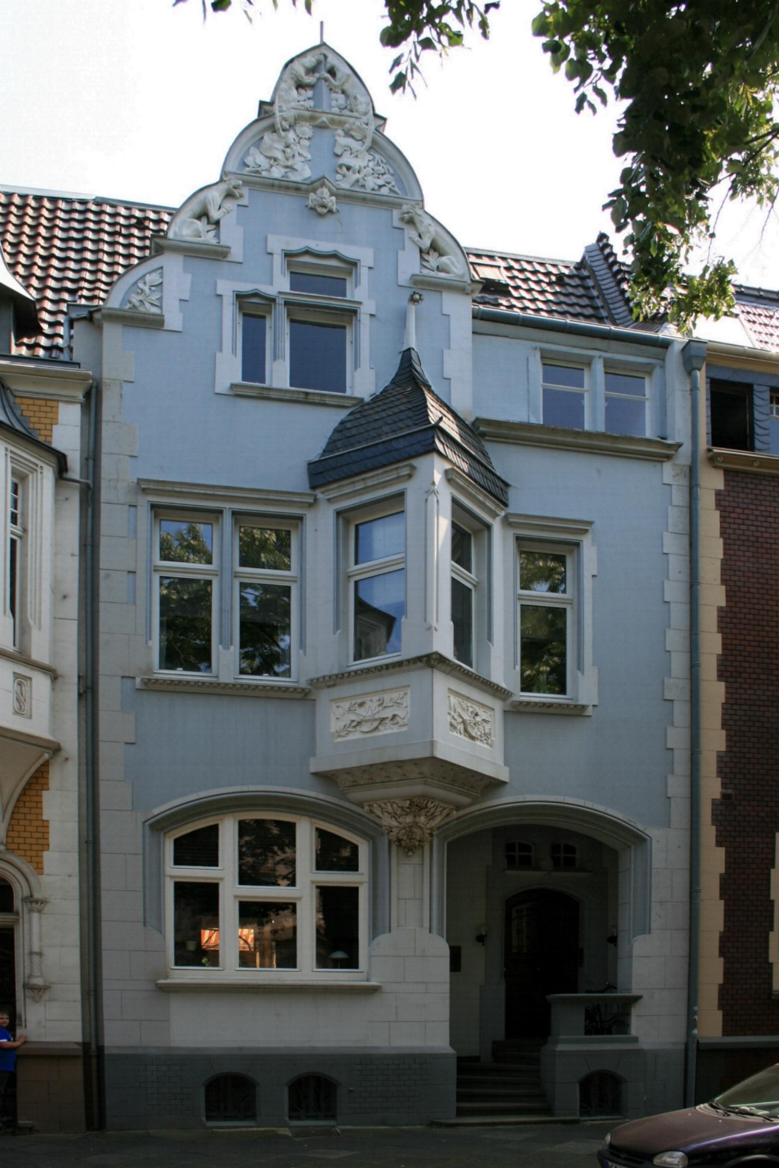 Cultural heritage monument No. B 060 in Mönchengladbach